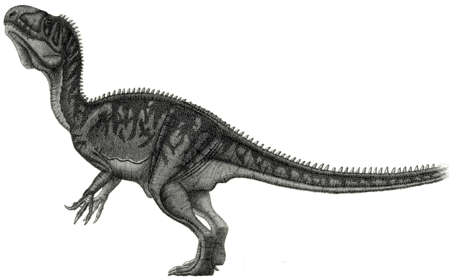 Sketch of Piveteausaurus divesensis, a theropod Dinosaur from the Middle Jurassic of Europe (France). Note that this dinosaur is only known from a complete braincase (neurocranium), therefore the reconstruction in that illustration is completely hypothetical based upon a generalised allosauroid bodyplan.